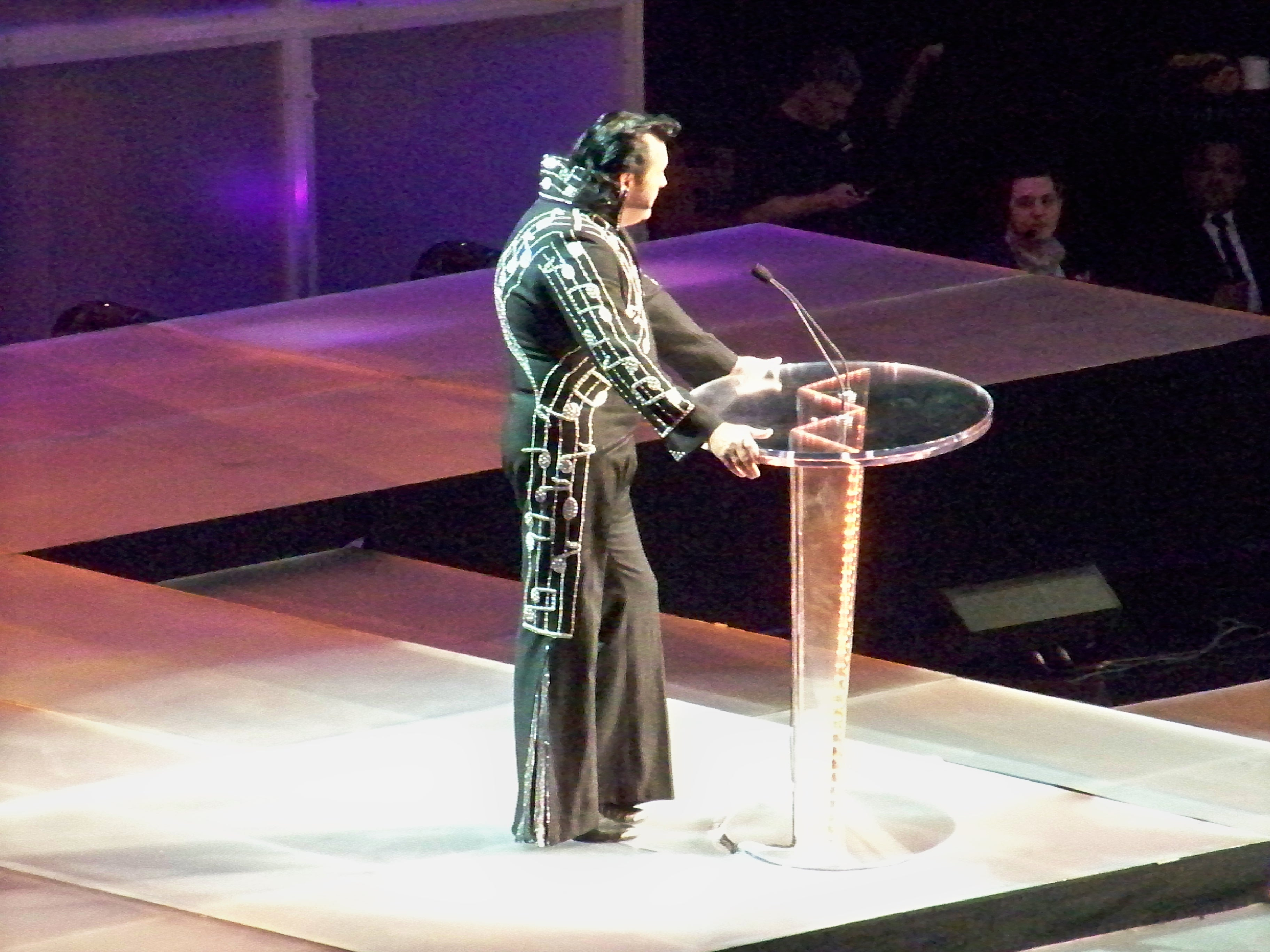 Tres bon intro pour Koko B Ware